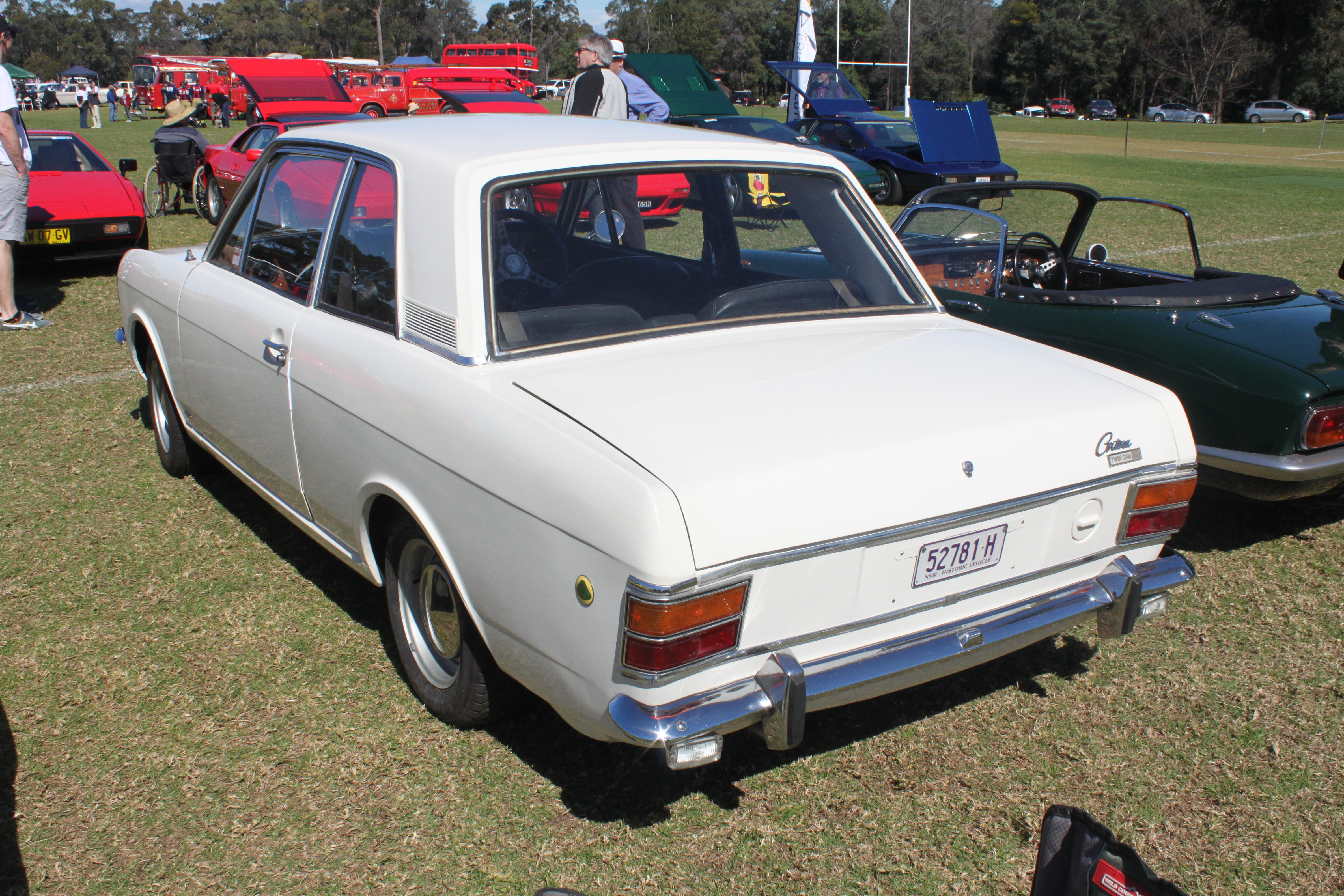 All British Day, Kings School, North Parramatta, NSW August 2015